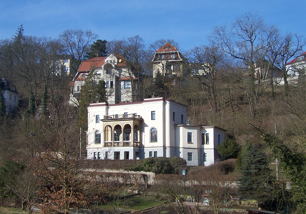 The Reuter-Wagner-Museum in Eisenach.